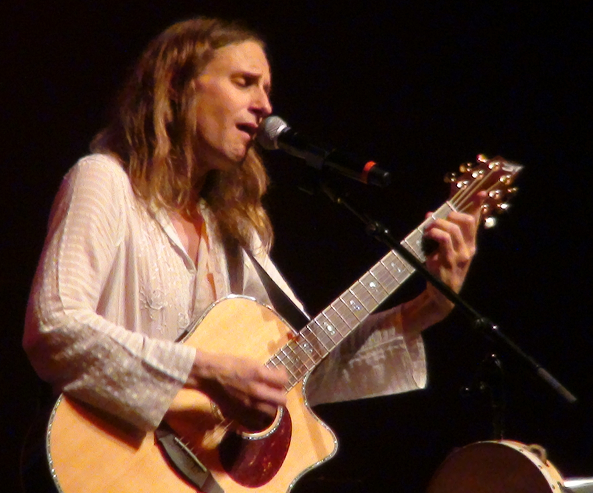 Jon Davison playing and singing in a Yes show at HSBC Brasil Hall in São Paulo on 24 May 2013.